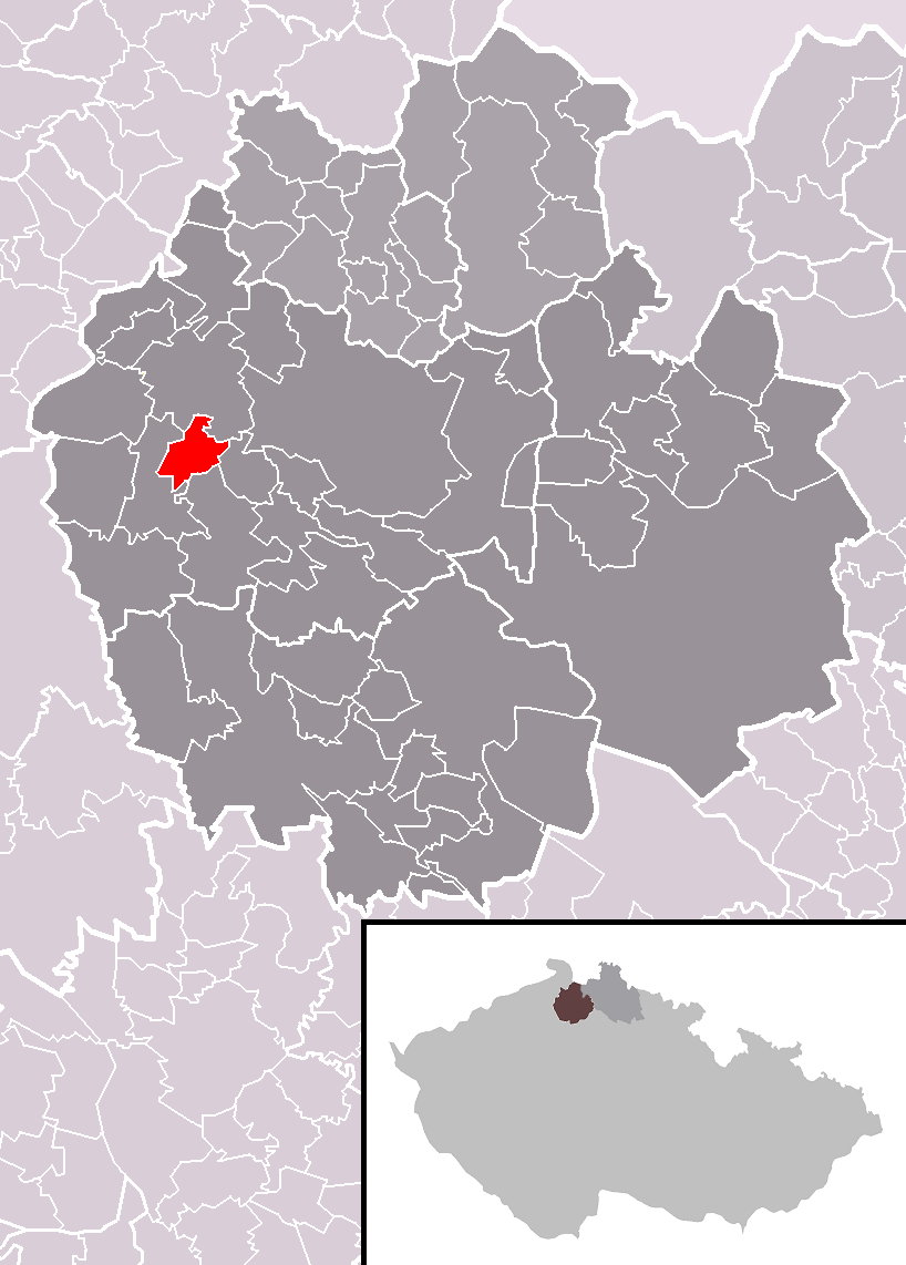 Location of Kozly municipality within Česká Lípa District and administrative area of Česká Lípa as a Municipality with Extended Competence.